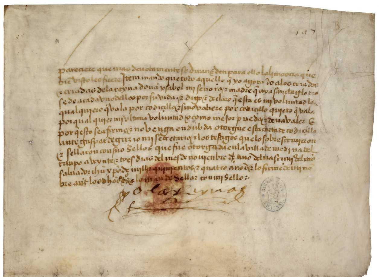 Will of Isabel I, Queen of Castile. It can see her signature («Yo, la Reyna» that means "I, the Queen"), 1504 (replica)